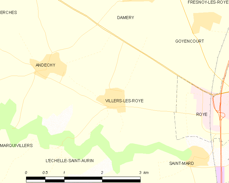 Map of French municipality Villers-lès-Roye